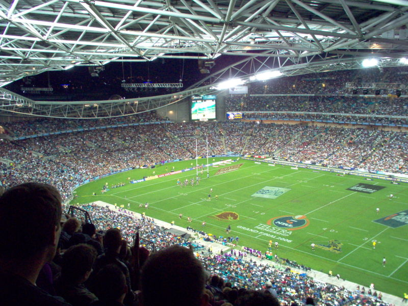 NRL 2006 Grand Final at Stadium Australia, Homebush (formerly Telstra Stadium)